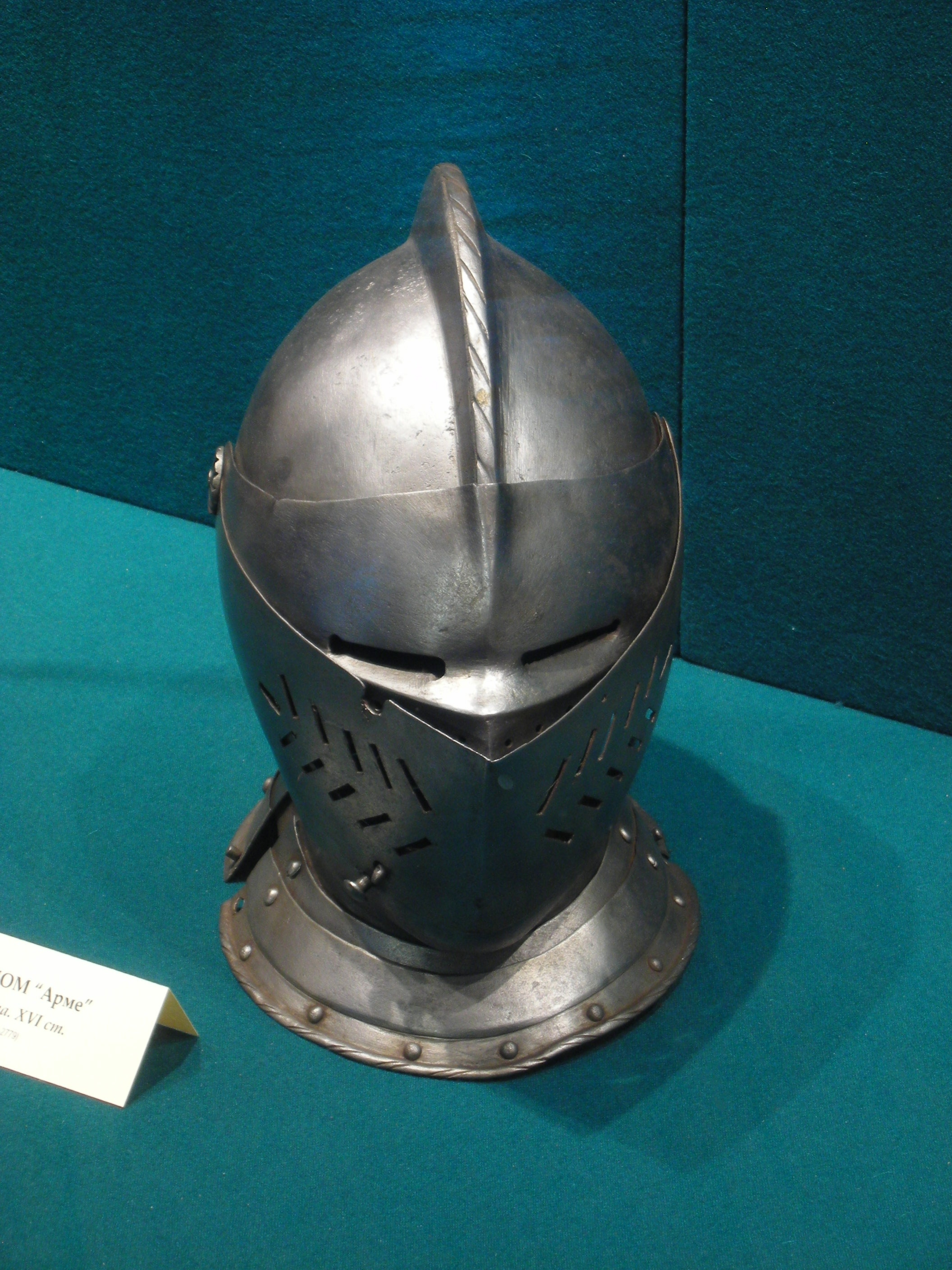 Medieval helmet in "Arsenal" Museum in Lviv (Ukraine).